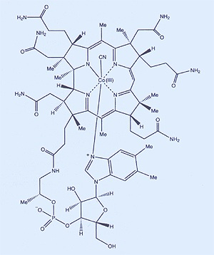 The molecular structure of vitamin B12, which Dorothy Hodgkin determined using X-ray crystallography. Downloaded with permission from the Science History Institute, as part of the Wikipedian in Residence initiative.